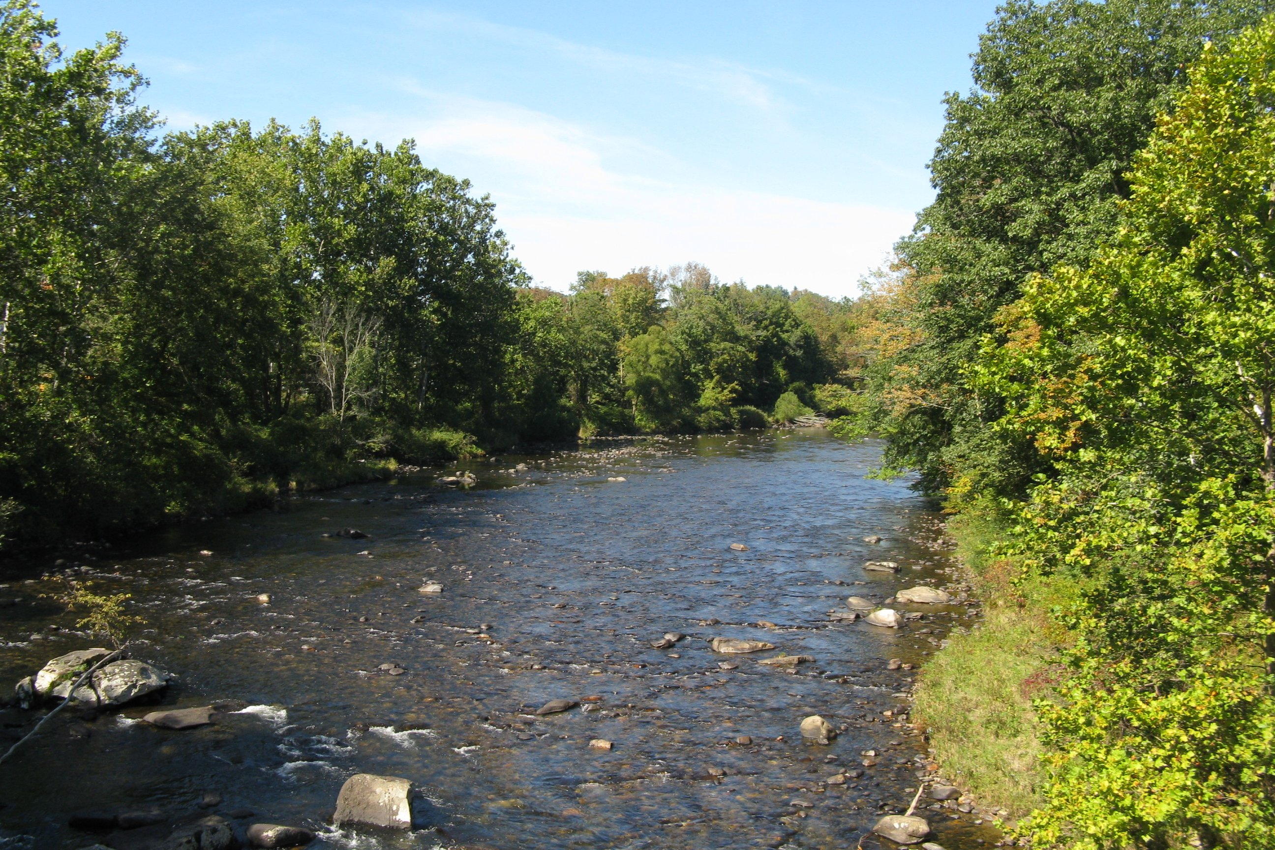 Westfield River from East Main Street, Huntington Massachusetts